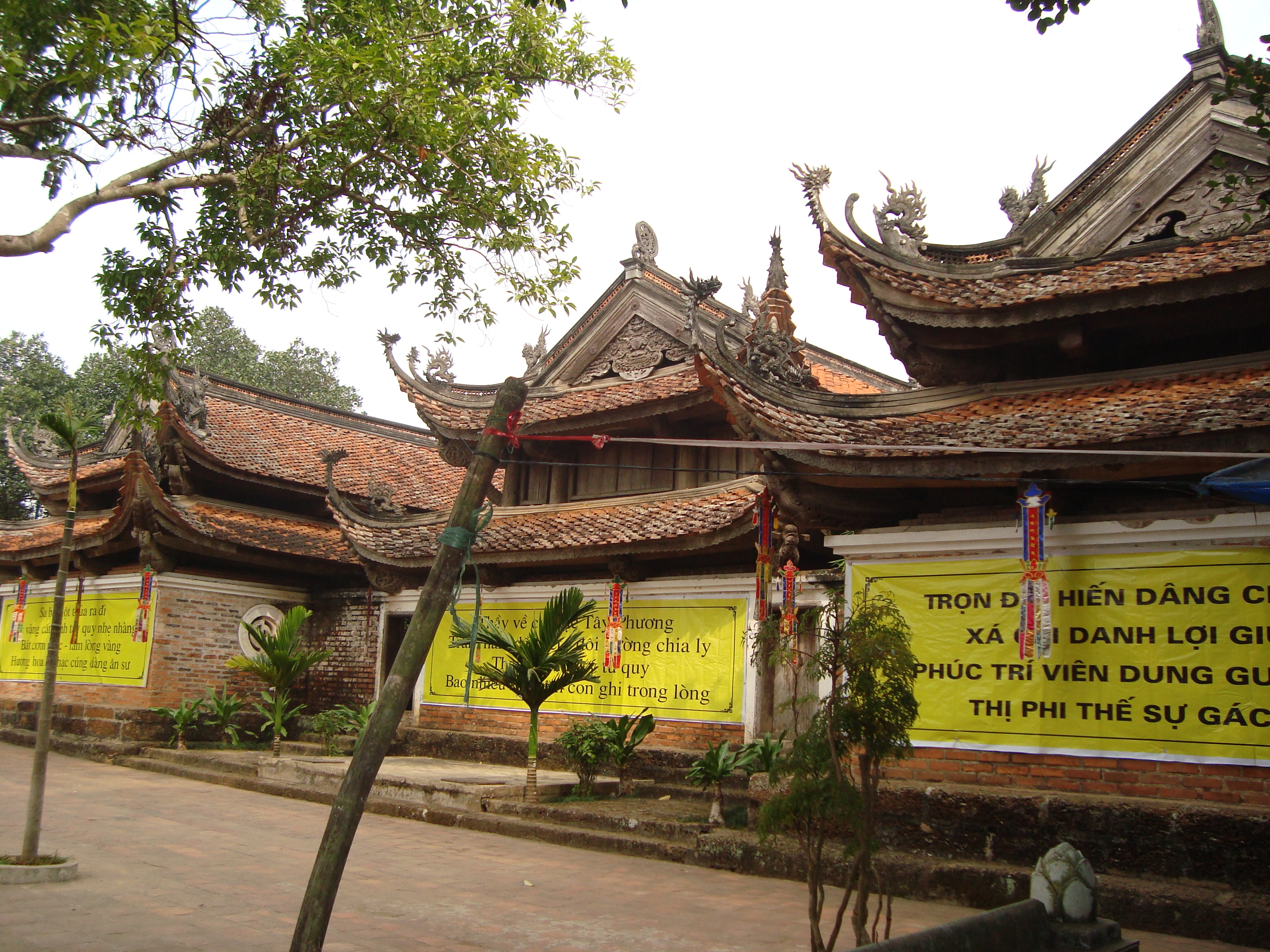 Tây Phương Buddhist Temple, Thạch Thất District, Hanoi, Vietnam.